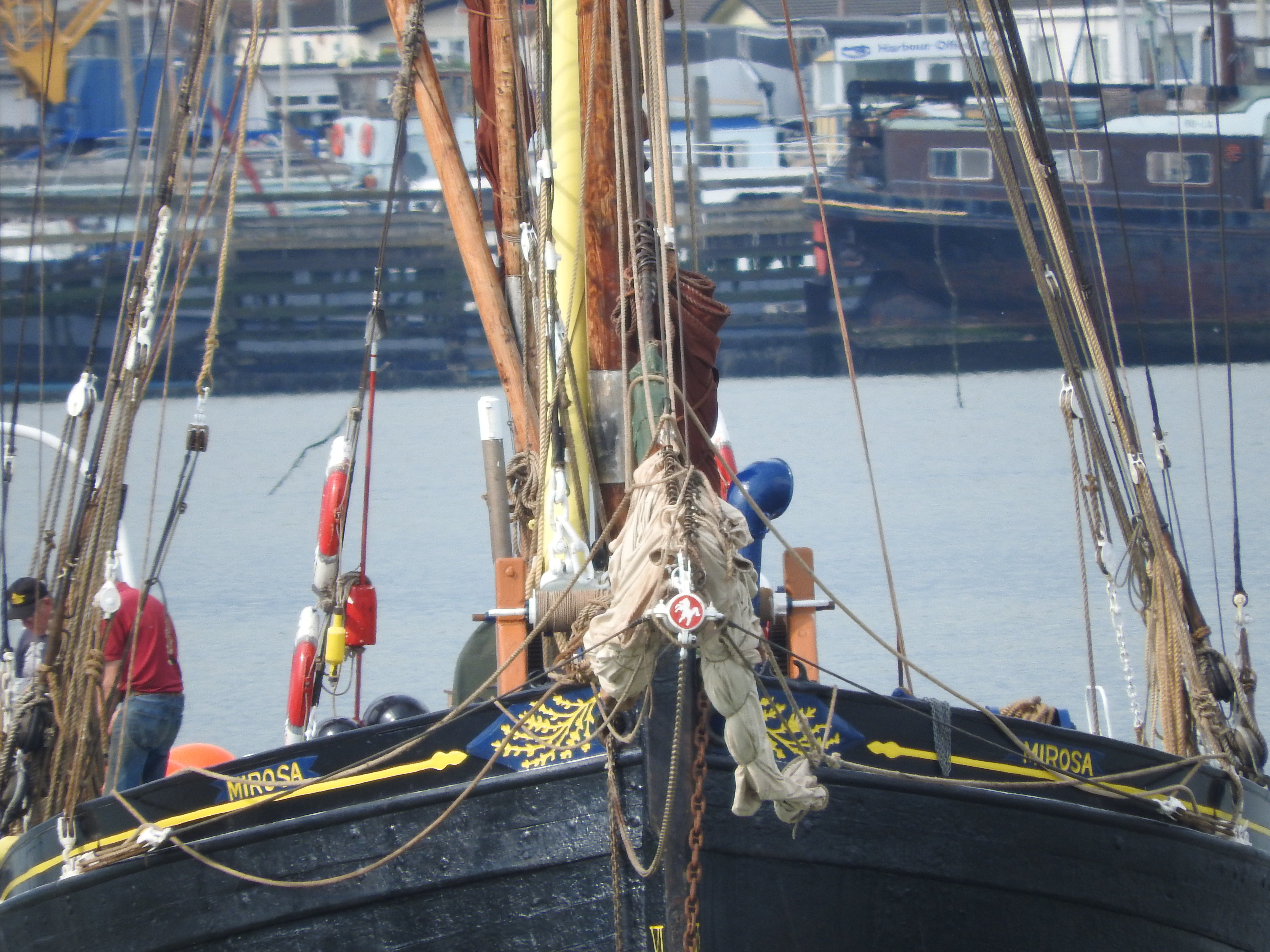 Mirosa arrived to compete in the 109th Medway Barge Sailing match, viewed from Gillingham Pier.